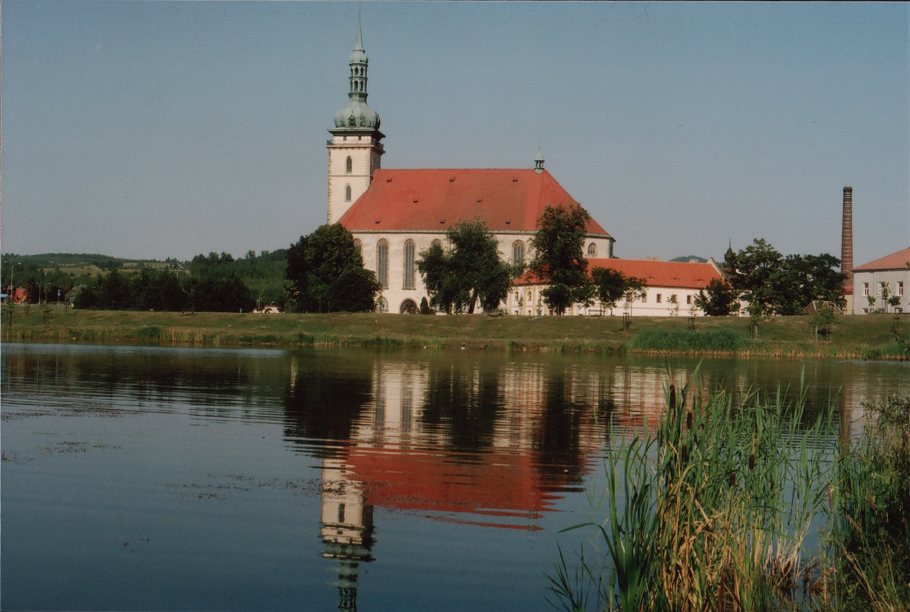 Church of the Assumption (notice the incorrect filename) of the Virgin Mary in Most